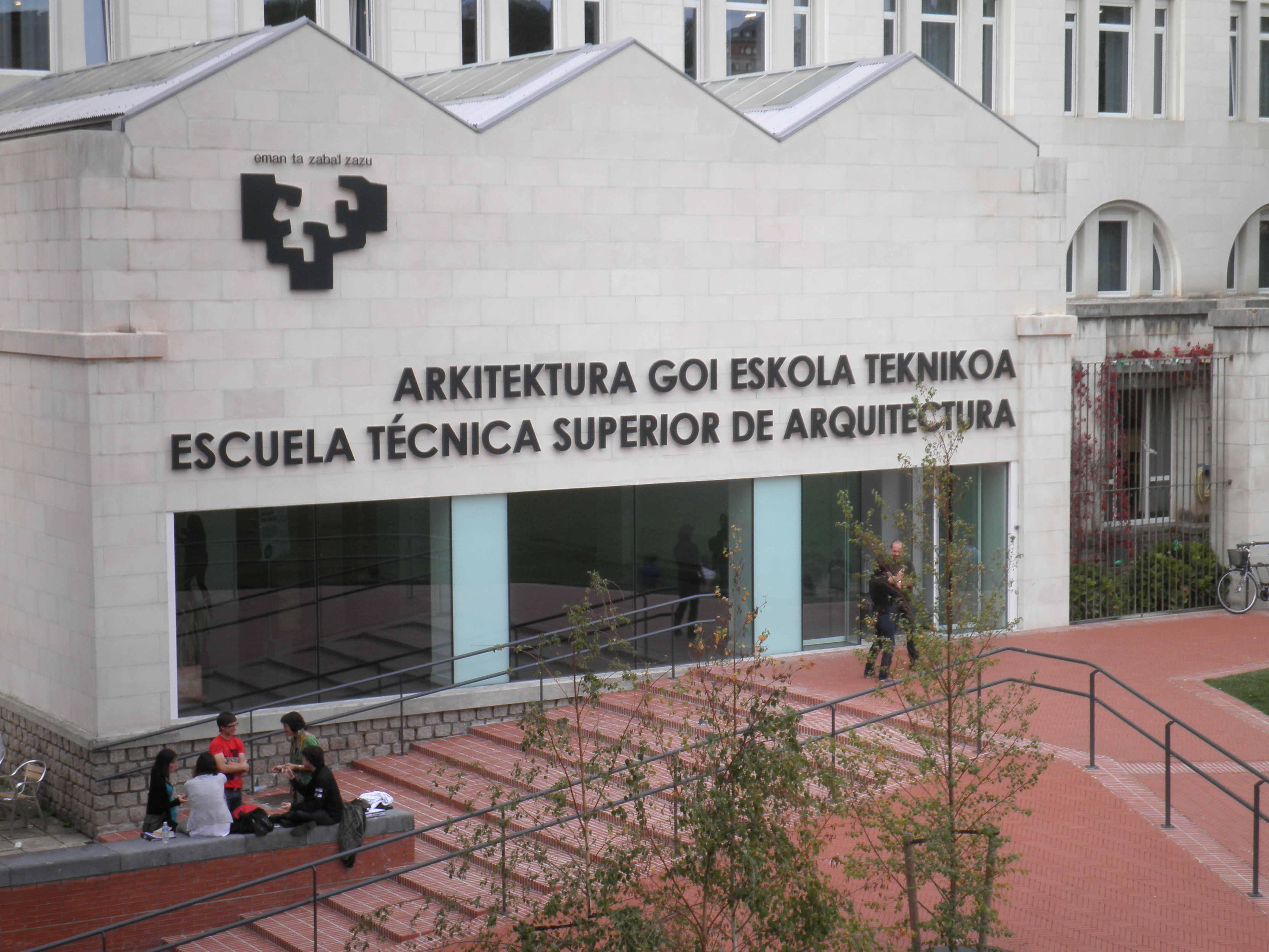 Entrance for Architecture School in Donostia.